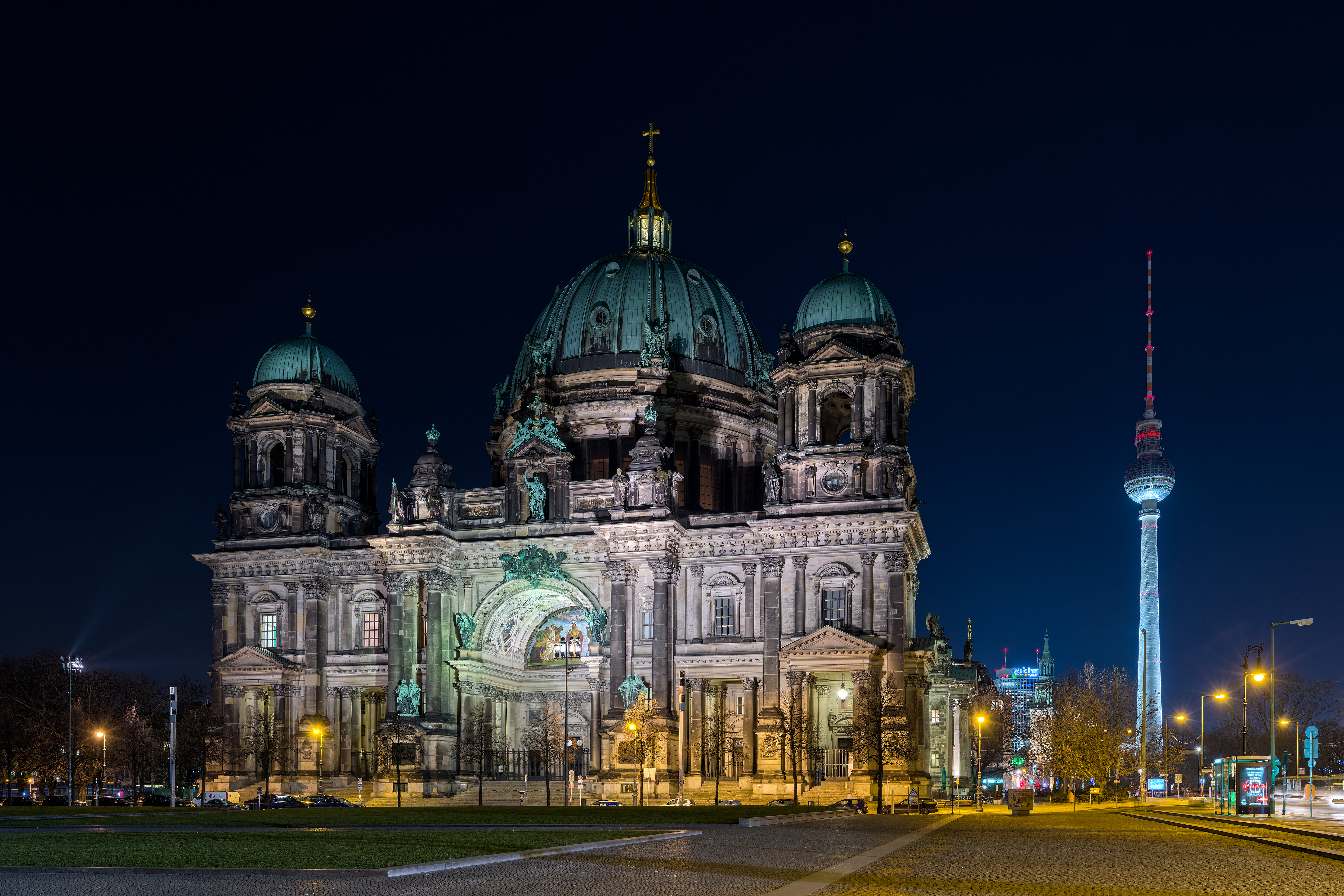 Berlin cathedral at night as seen from west. On the right in the background the Fernsehturm (tv tower) can be seen.